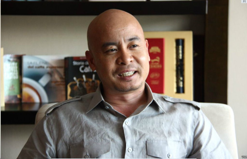 Dang Le Nguyen, chairman of Trung Nguyen Coffee Company, wants to make Vietnam a "coffee holy land".